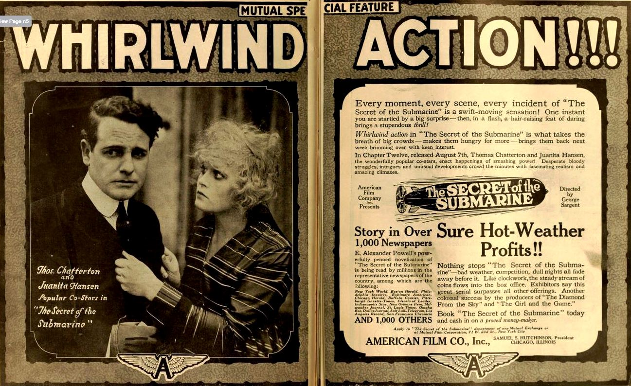 Ad for the American film serial The Secret of the Submarine (1915) with Thomas Chatterton and Juanita Hansen, page 1050 of the August 12, 1916 Moving Picture World.